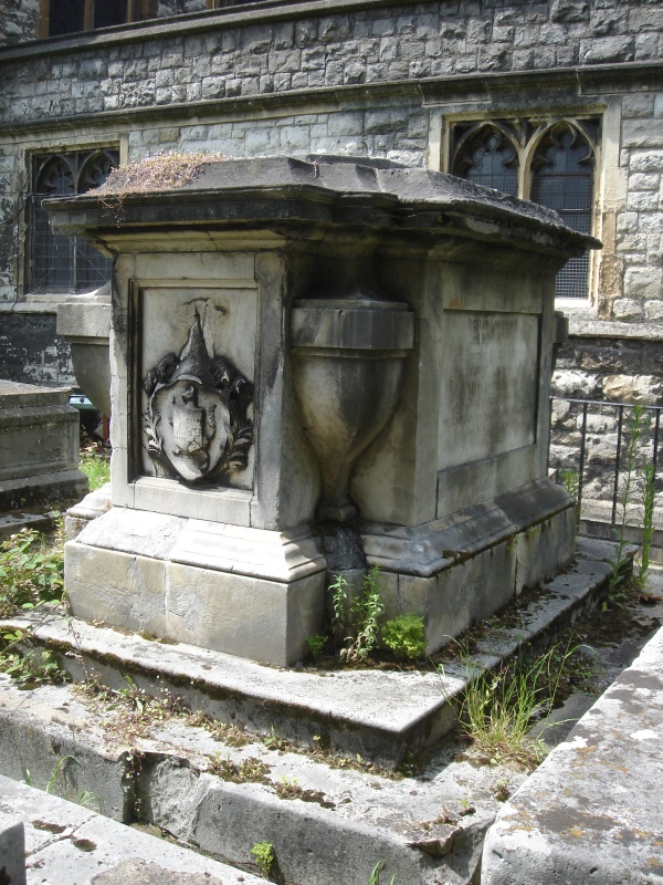 Robert Lowth's funerary monument, All Saints, Fulham, London. Photo taken by Edwardx for Wikipedia